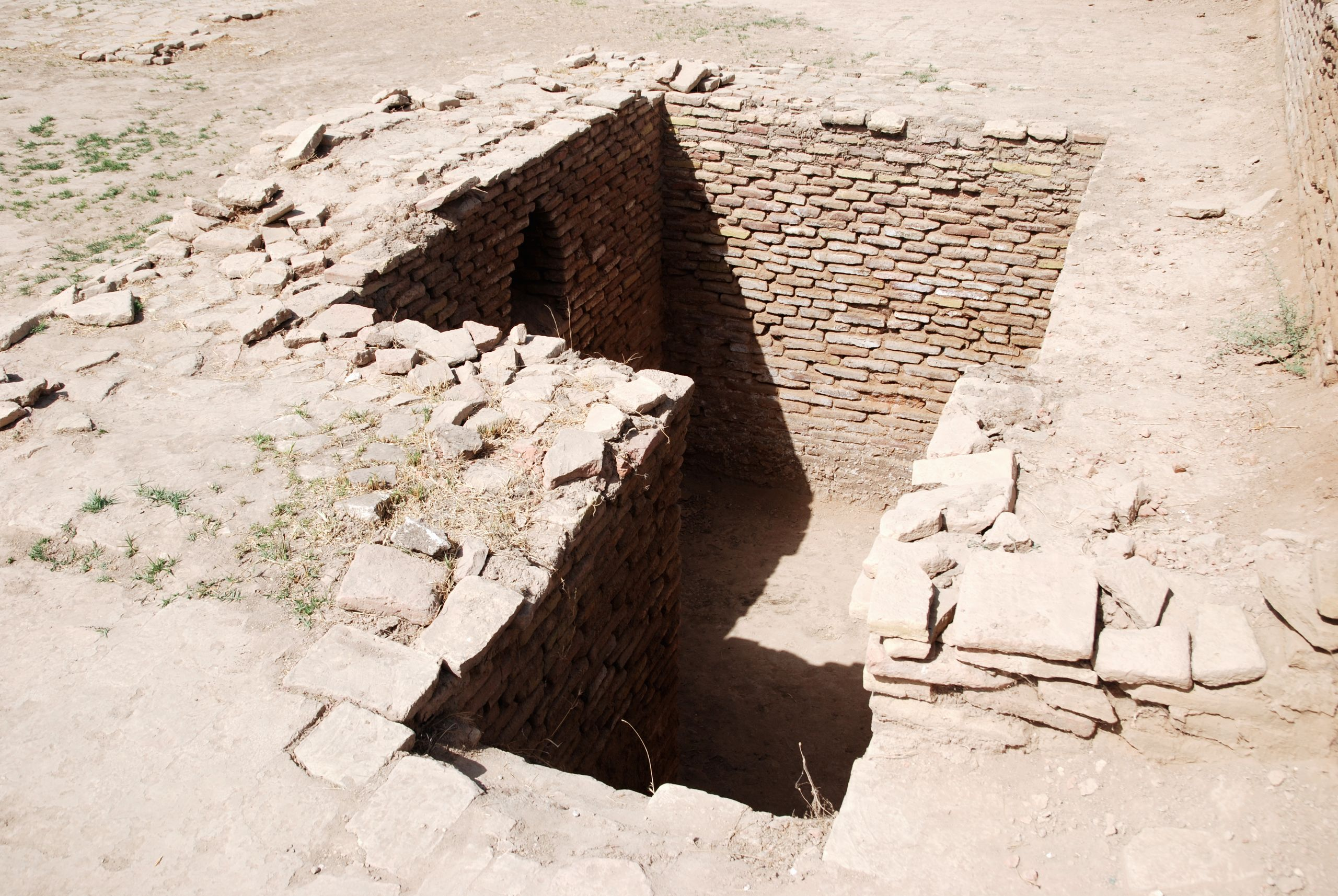 Hulbuk, Kurbon Shahid, bath